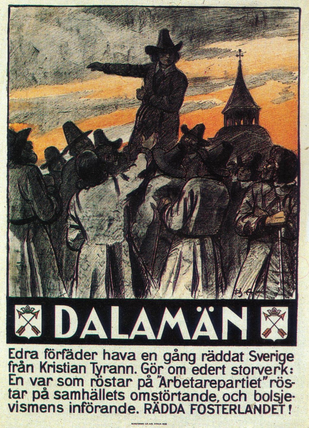 Election poster for the 1928 second chamber election of Sweden. Translation: "Men of Dalarna! Your forefathers once saved Sweden from Christian the tyrant. Please repeat your magnificent work. Anybody who votes for the "Labour party" vote for wrecking the society and bolshevism. Save the mother country!"